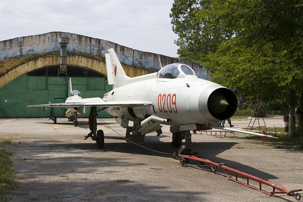 Two F7s (Chinese version of the MiG-21F-13 'Fishbed') at Tirana Airport